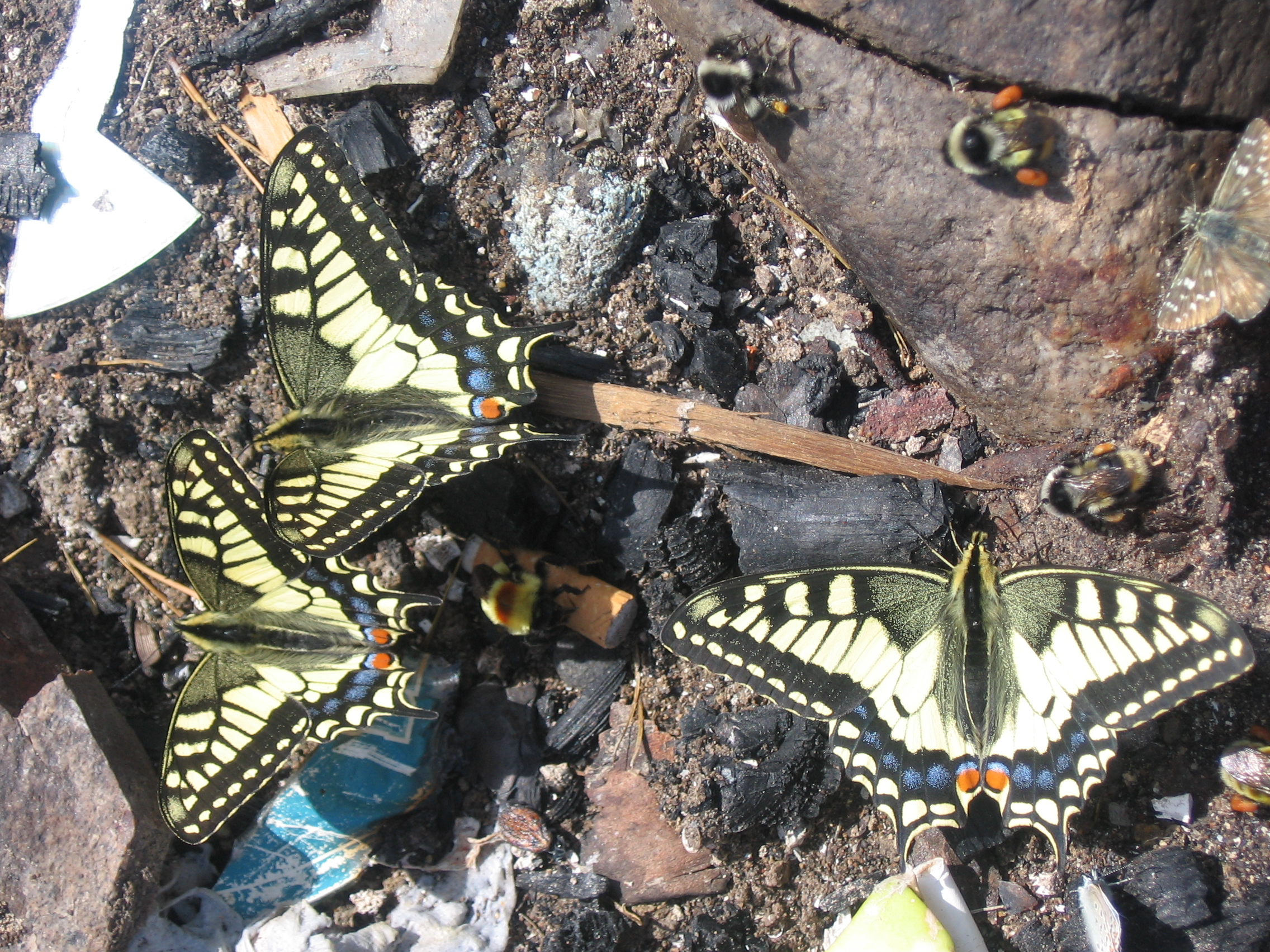 Papilio machaon on the Baikal